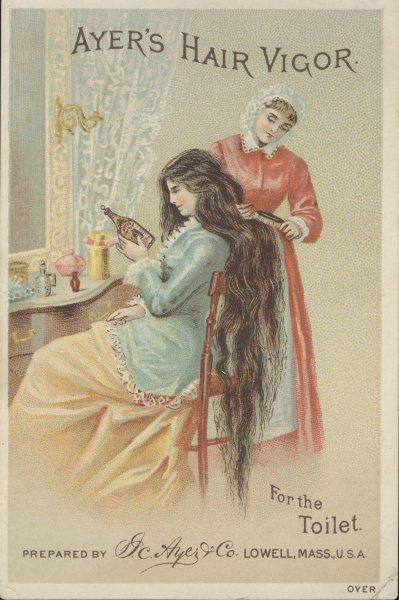 Persistent URL: Subject (TGM): Women; Hair; Hair preparations; Hairdressing; Hairstyles; Dressing tables; Boudoirs; Patent medicines; Pharmacists; Drugstores; Servants; Cosmetics & soap; Keywords: Ayer's Hair Vigor